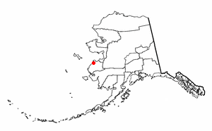 Adapted from Wikipedia's AK borough maps by Seth Ilys.